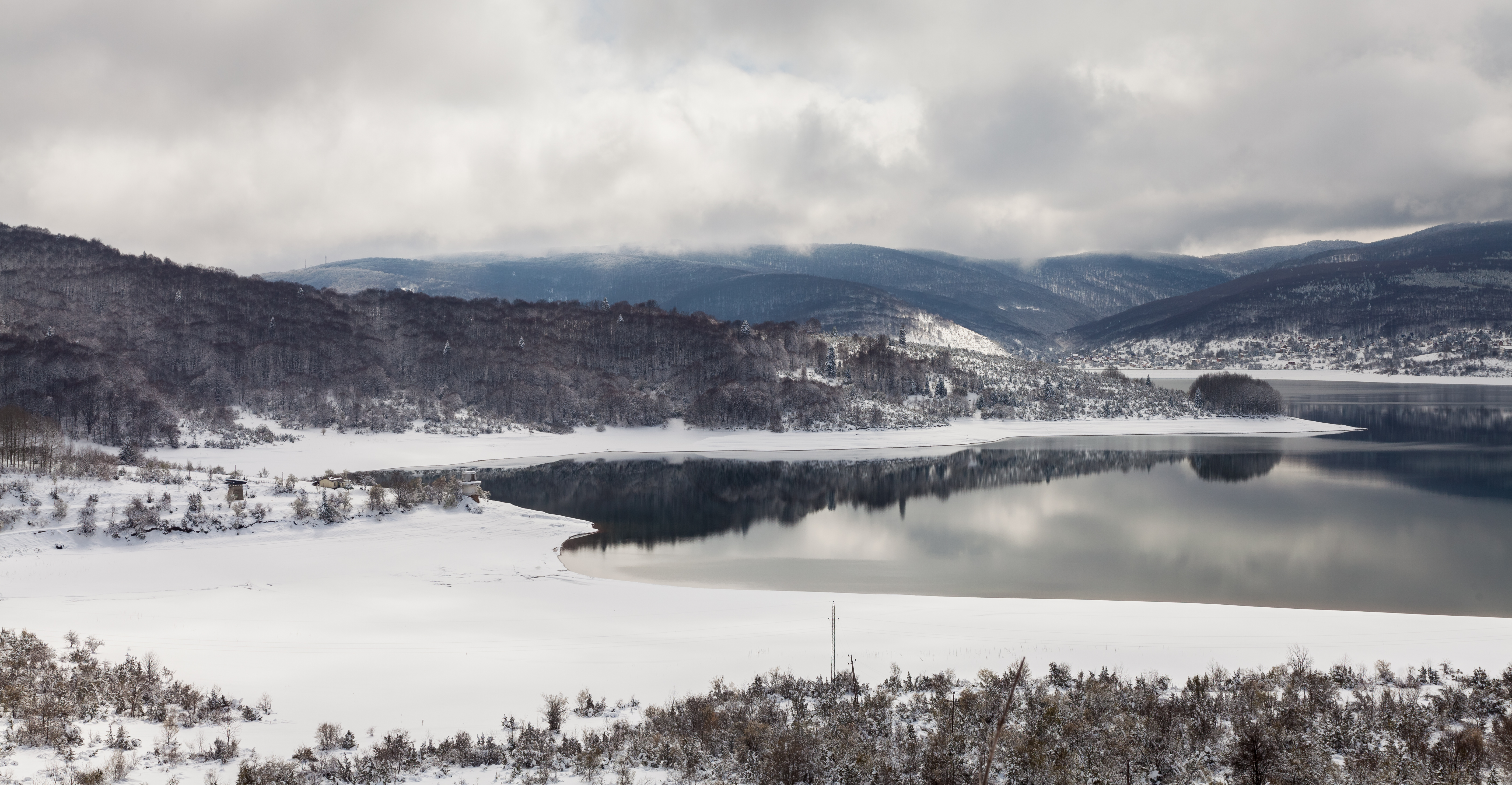 Mavrovo Lake, Macedonia